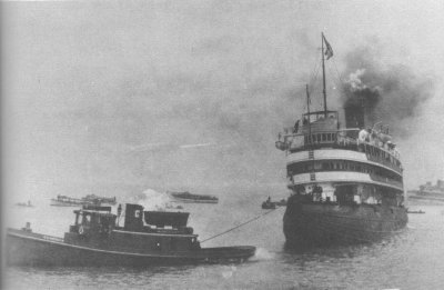 The S.S. Christopher Columbus was a whaleback excursion liner designed by Alexander McDougall and built in 1892-1893 in Superior, Wisconsin by American Steel Barge Company for service to ferry passengers to and from the World's Columbian Exposition, and later placed in general and excursion service to various ports around the Great Lakes. This photo, used on a postcard, was taken during stability testing of the Columbus following the SS Eastland capsize disaster. Tugs are trying to tip her over. She was reportedly loaded with sandbags representing a full complement of passengers, all on one side.